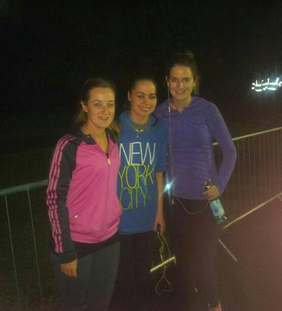 Settled Irish socializing with modern day traveller to promote intergration